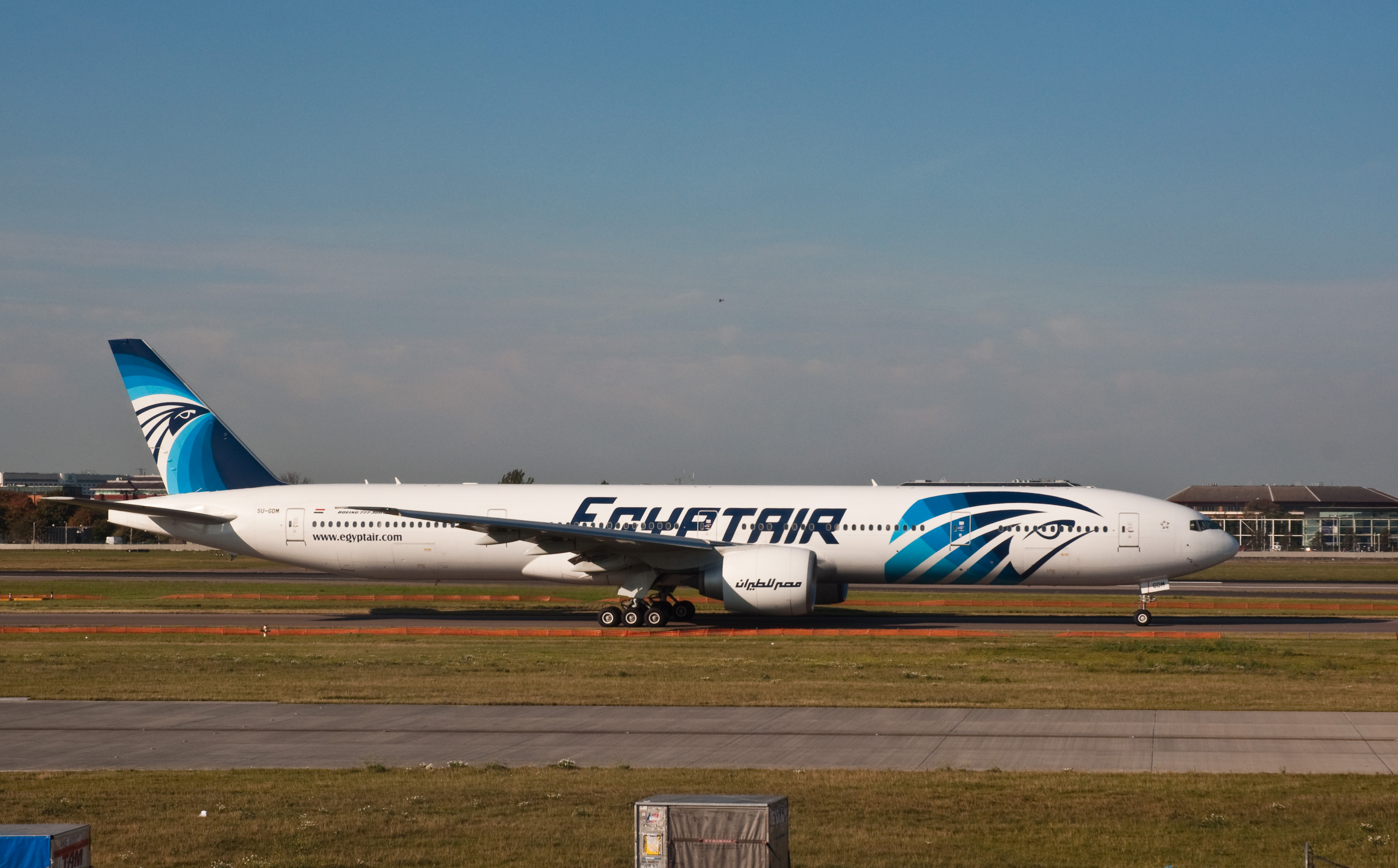 Boeing 777-300ER SU-GDM of EgyptAir in London Heathrow Airport, England (October 2011).